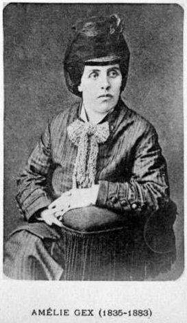 Amélie Gex (1835-1883), poet, journalist, and writer from France